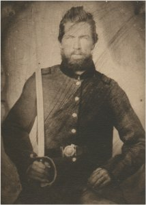 Lt. Col. Powhatan Bolling Whittle, commanding officer, 38th Virginia Infantry. Of Lt. Col. Whittle's role during Pickett's Charge, General James Longstreet noted: "Colonel Whittle of Armistead's brigade, who had been shot through the right leg at Williamsburg and lost his left arm at Malvern Hill, was shot through the right arm, then brought down by a shot through his left leg." Following the Civil War, Whittle returned to his home in Valdosta, Georgia. He later practiced law, was judge of the corporation court of Macon, Georgia, and served several terms in the Georgia legislature. Whittle was born in Mecklenburg County, Virginia, and named for his ancestor, the Indian chief Powhatan, from whose daughter Pocahontas Whittle descended.